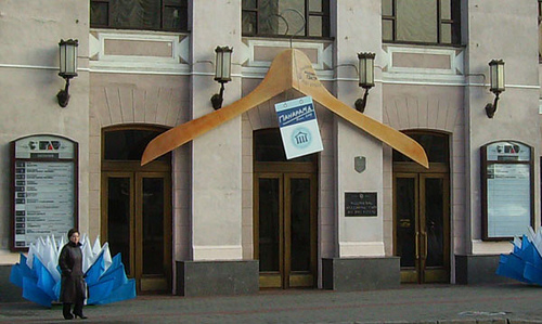 Yanka Kupala Theatre in Minsk, decorated with a huge hanger on the International Festival of Theatre Art «Panorama»